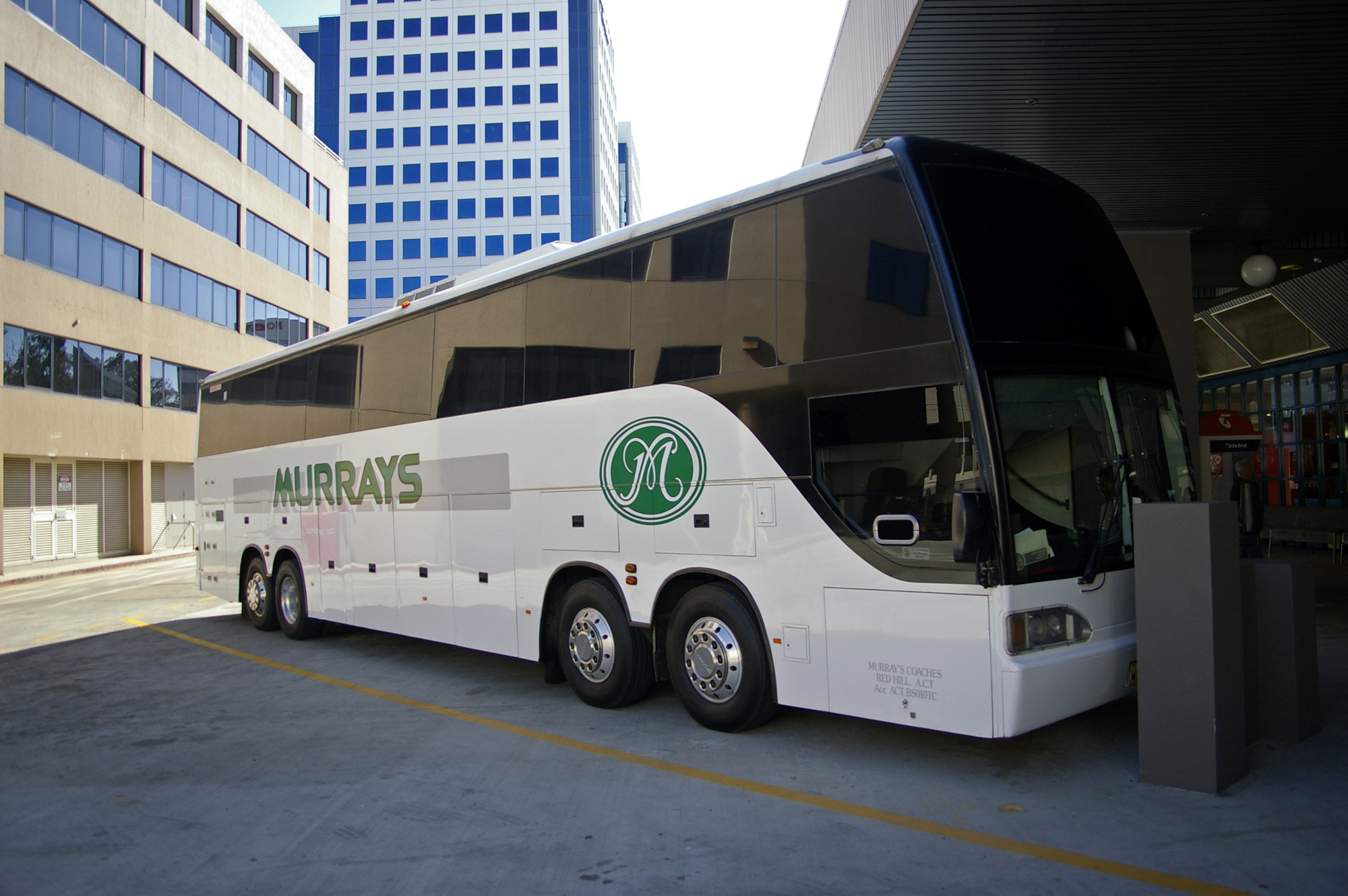 Austral Pacific bodied Scania K113TRBL 14.5m Quad-Axle Coach operated by Murrays at the Jolimont Centre in Canberra City, Australian Capital Territory.